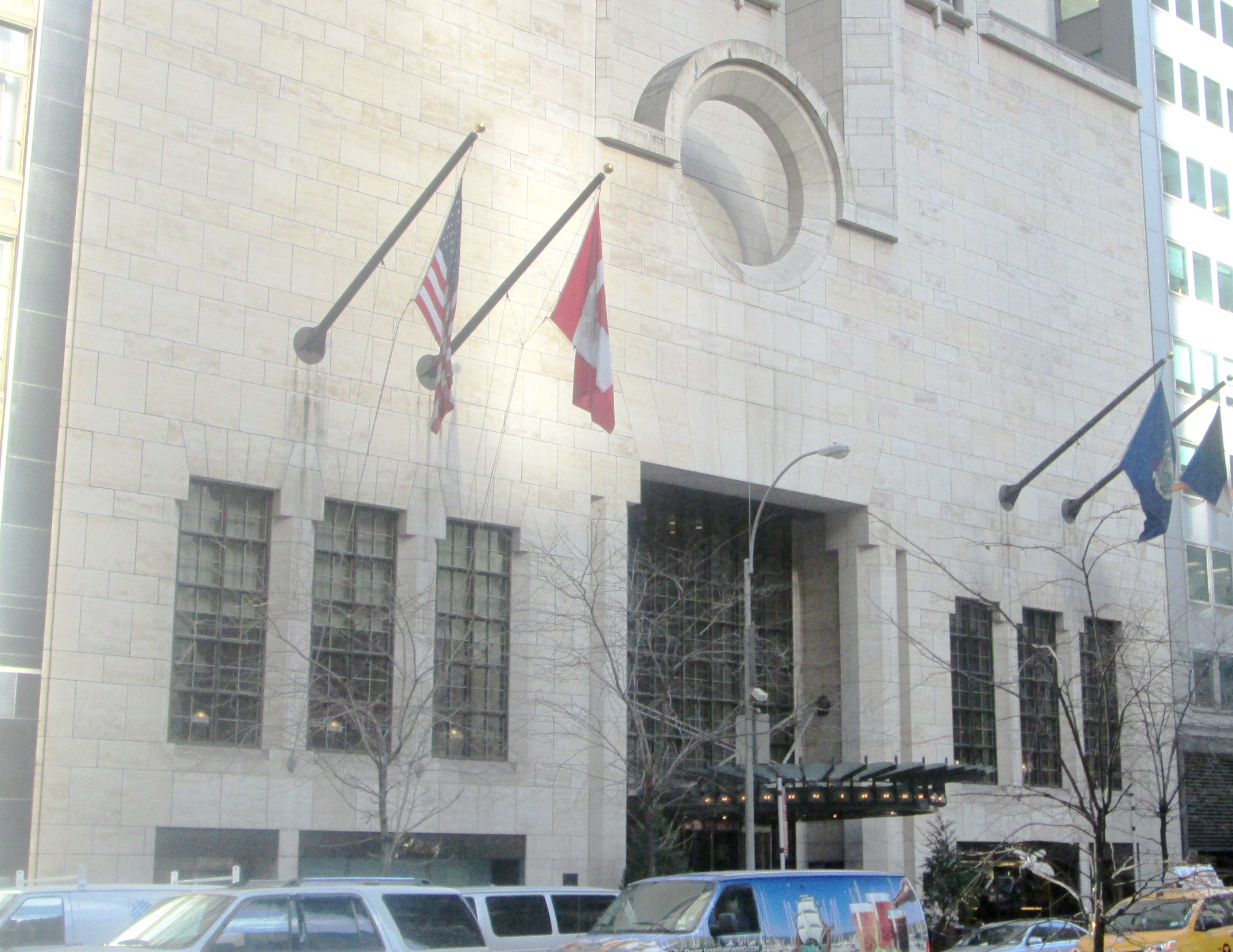 The Four Seasons Hotel at 57 East 57th Street between Madison and Park Avenues in Midtown Manhattan was built in the 1992 and was designed by I. M. Pei of Pei Cobb Freed & Partners, with Frank Williams and Assoc. the associated architects. {Source: AIA Guide to NYC (5th ed.))